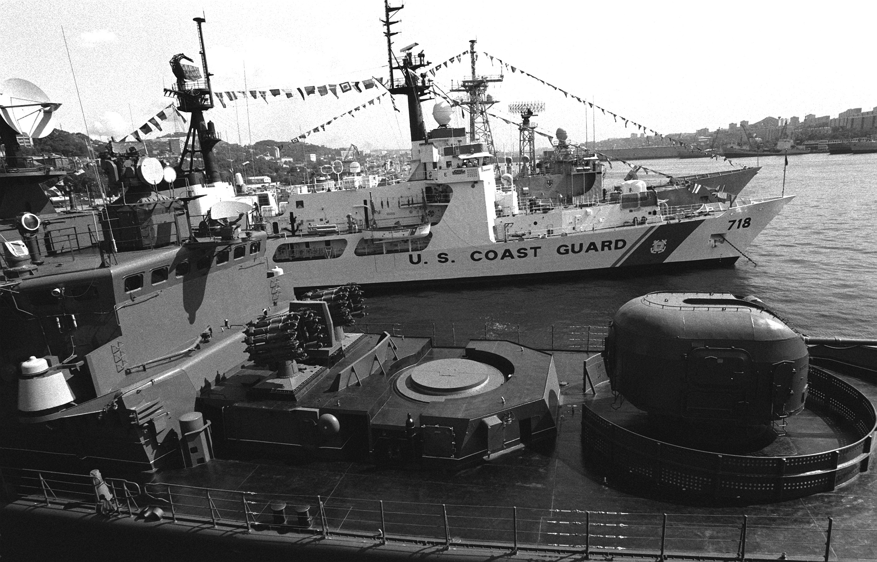 A view of the high endurance cutter USCGC CHASE (WHEC-718) and the guided missile cruiser USS MCCLUSKY (FFG-41) moored near the Russian Maritime Border Guard Krivak III class frigate OREL (149), foreground. The U.S. ships are making a three-day goodwill port visit to the Russian port city. OREL's 100mm gun is on the right and its two RBU-6000 anti-submarine mortar launchers are mounted in front of the bridge. Location: VLADIVOSTOK, SIBERIA RUSSIA (RUS)